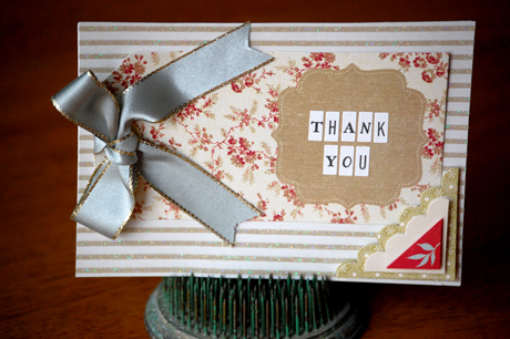 Making Memories preprinted tag on a card.